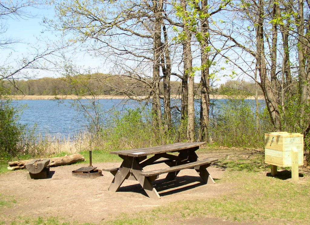 Walk-in campsite B14 overlooking Bjorkland Lake, Lake Maria State Park, Minnesota, USA